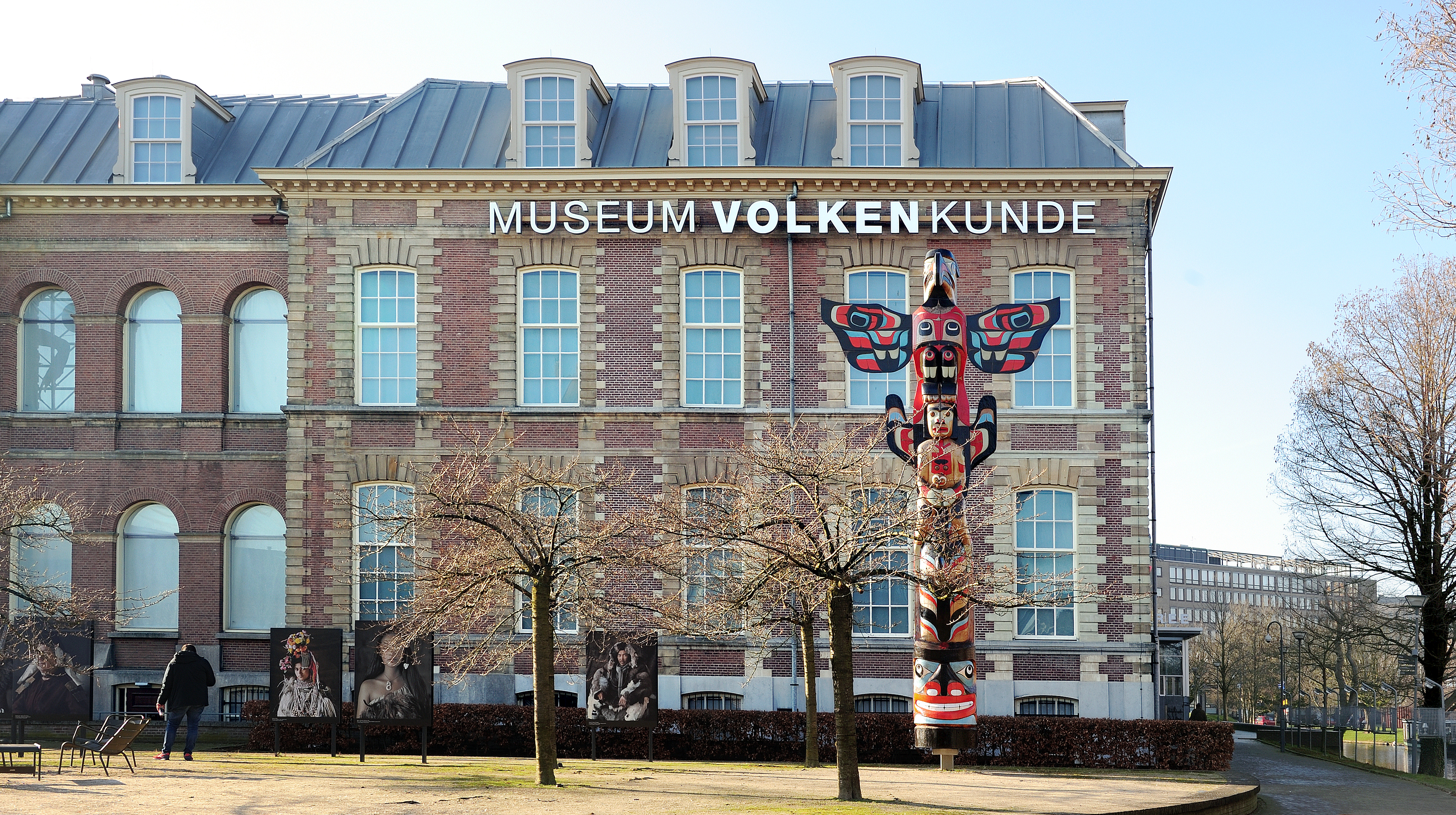 Building of the National Museum of Ethnology (Rijksmuseum Volkenkunde), Leiden, Netherlands. The 25-feet-high totem pole was carved from cedar wood by craftsmen from Cormorant Island in 2012.